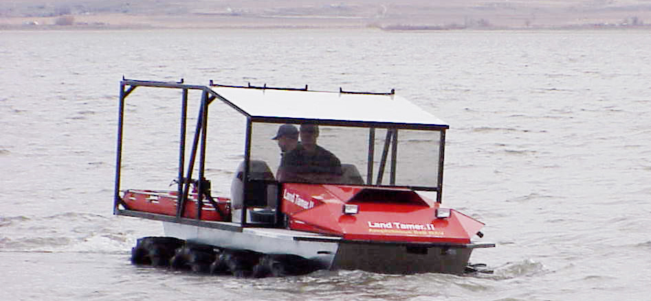 Land Tamer Amphibious 8x8 remote access vehicle with stretcher for disaster relief.